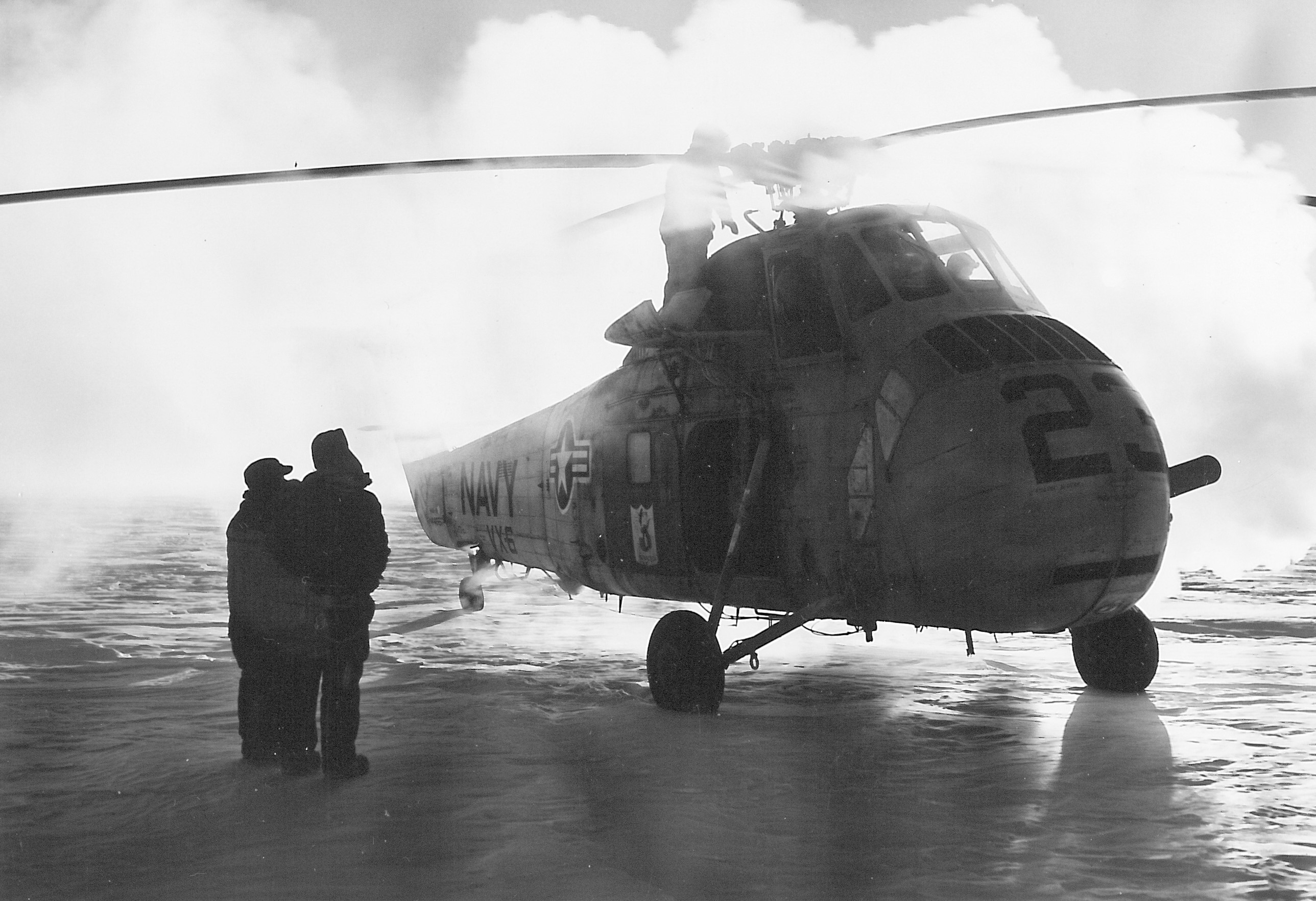 Black and white photograph of two men standing to the left, with a United States helicopter to their right. A large fluffy white cloud fills the background.